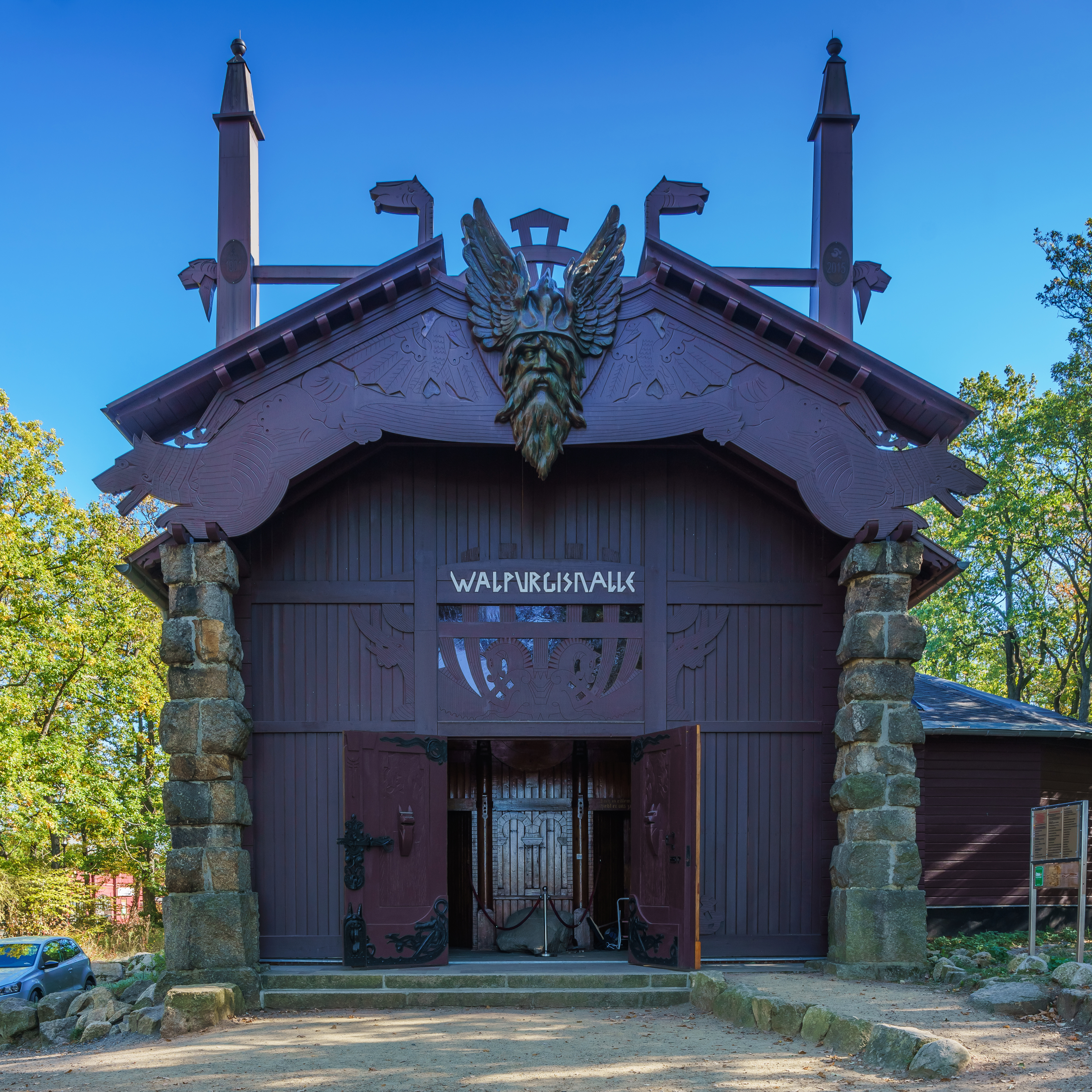 Witches' Point in Thale, Germany